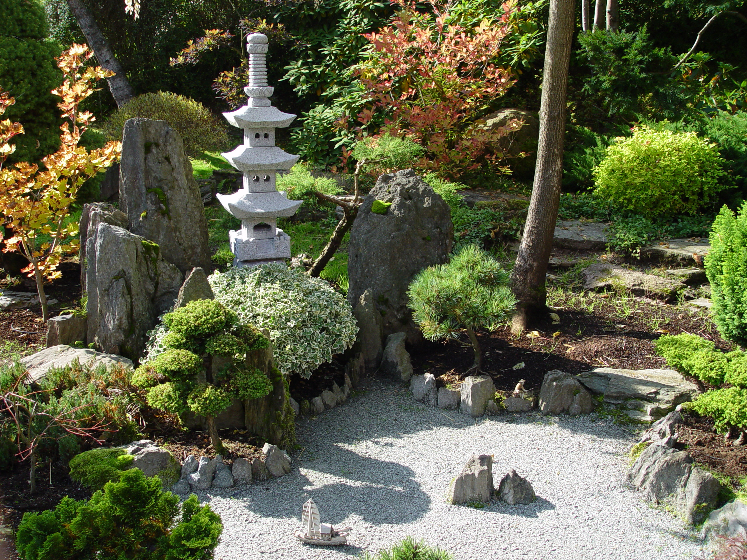 Japanese garden in Jarków, Lower Silesian Voivodship, Poland